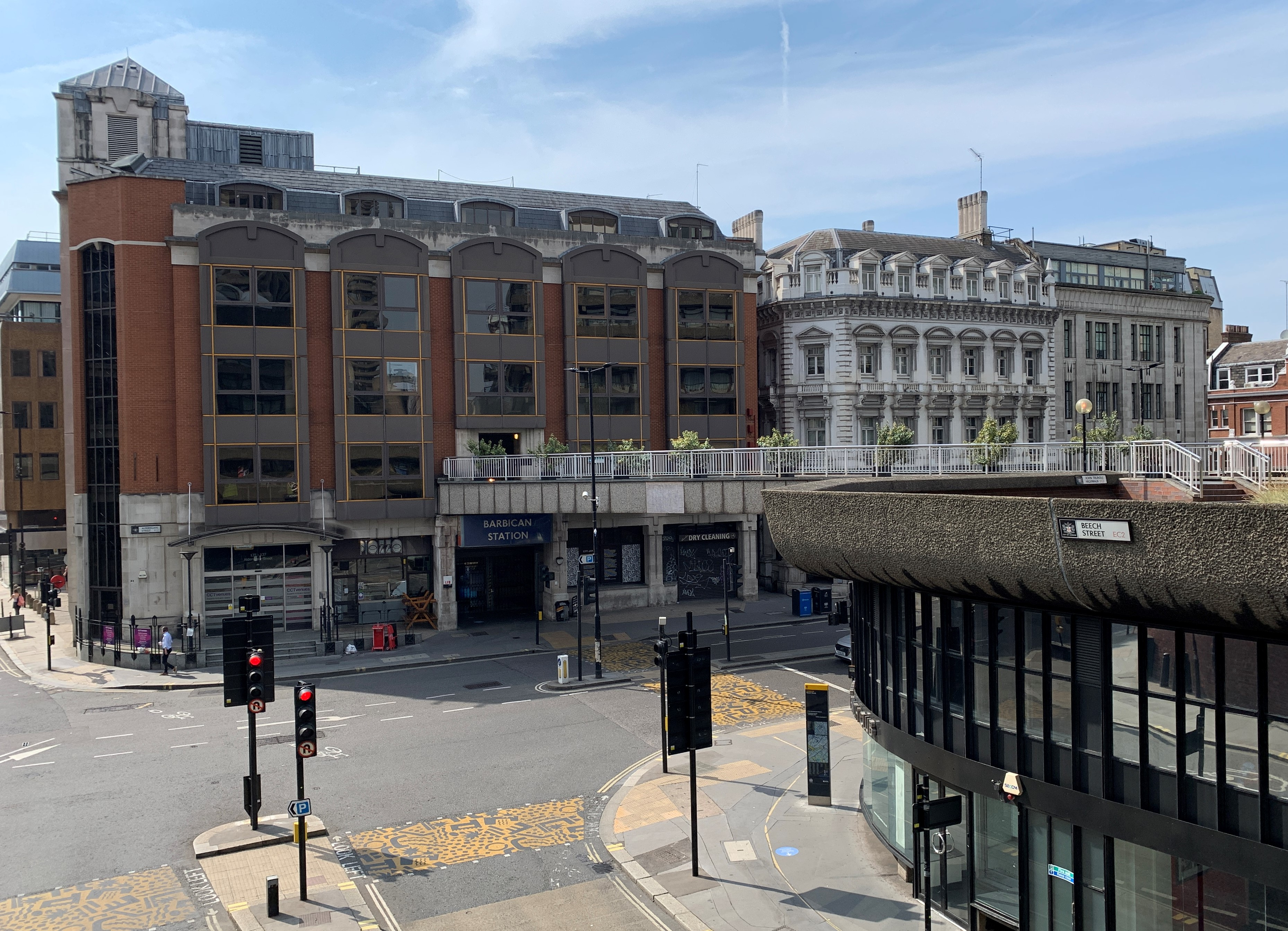 A general view Aldersgate Street, showing Barbican Underground station, London, taken in August 2020